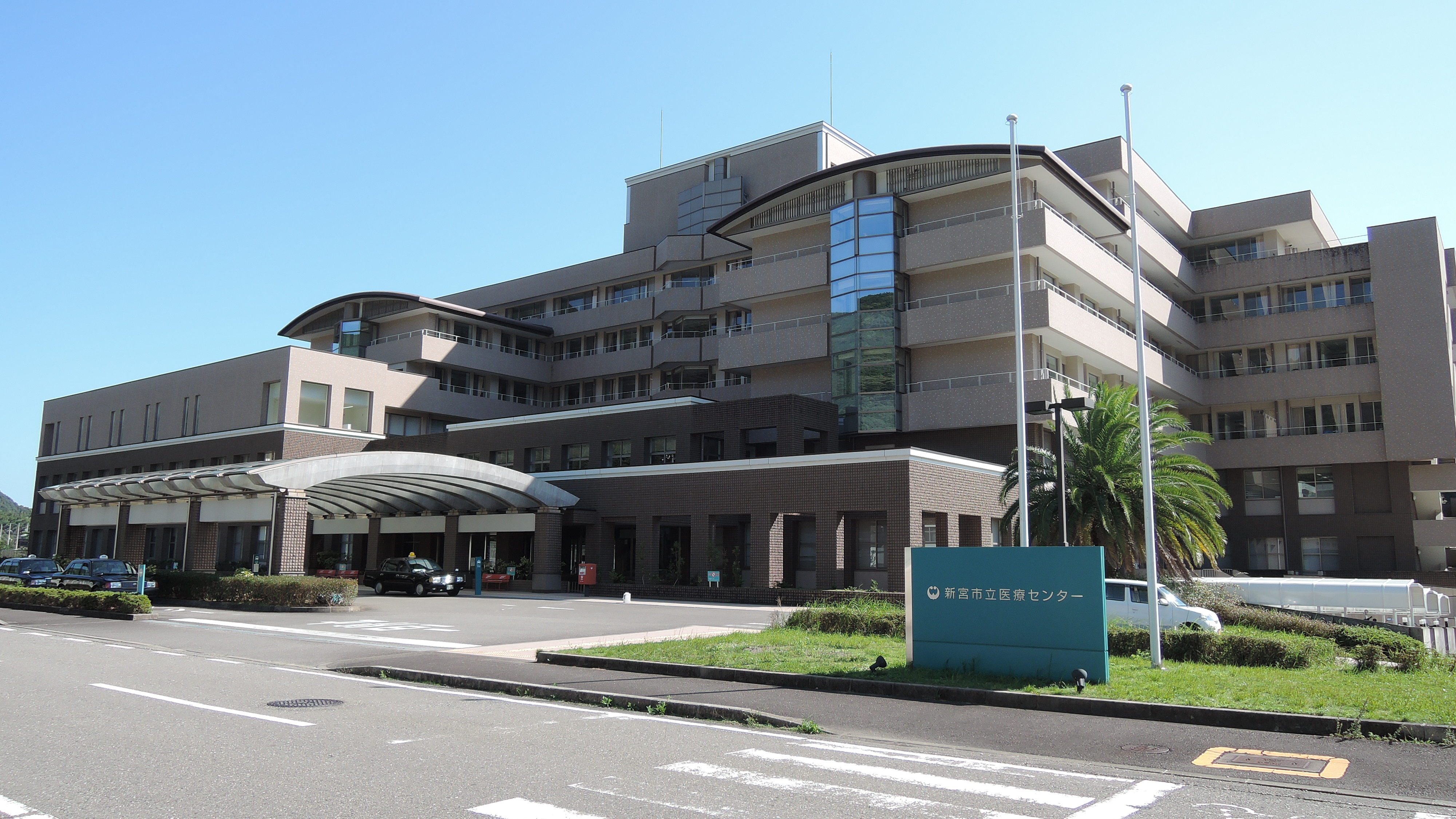 Shingū municipal medical center,Wakayama prefecture, Japan